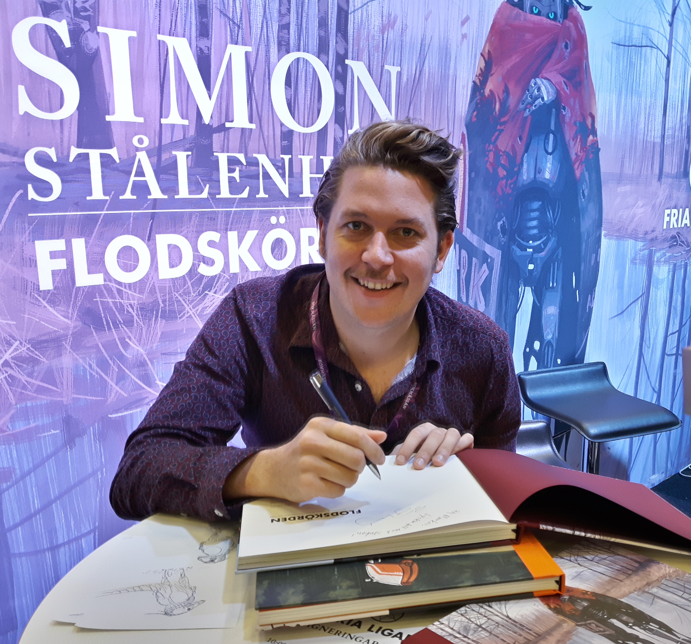 Simon Stålenhag signing his art books at the Göteborg Book Fair.